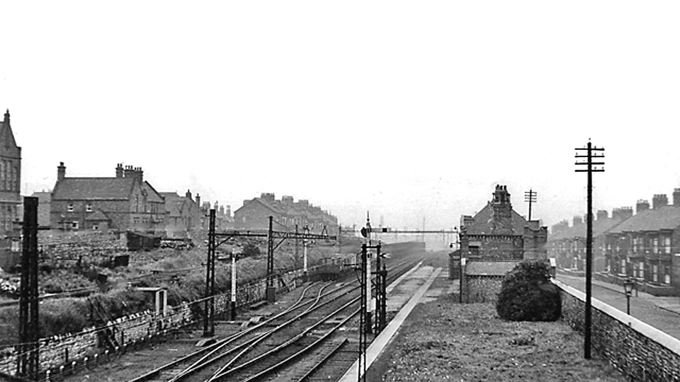 Westoe Lane (South Shields) Station (SSM&WC Rly.). View westward, towards staithes; passenger terminus of South Shields, Marsden & Whitburn Colliery Railway. The line closed to passengers on 23/11/53, to goods on 8/6/68, but some coal trains passed through this site until 1993.